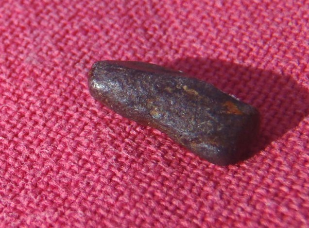 Oregonite, Awaruite Locality: Josephine Creek placers, Josephine Creek District, Josephine Co., Oregon, USA Dimensions: 11 mm x 4 mm x 5 mm A nugget of oregonite with "josephinite" (= awaruite), from Excalibur Mineral Company. Collection and photo Erik Vercammen.